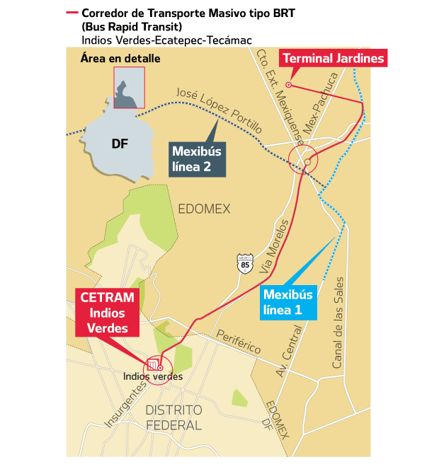 Mexibus L4 1